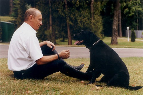 Vladimir Putin with his dog, a Labrador named Koni, in Novo-Ogaryovo.